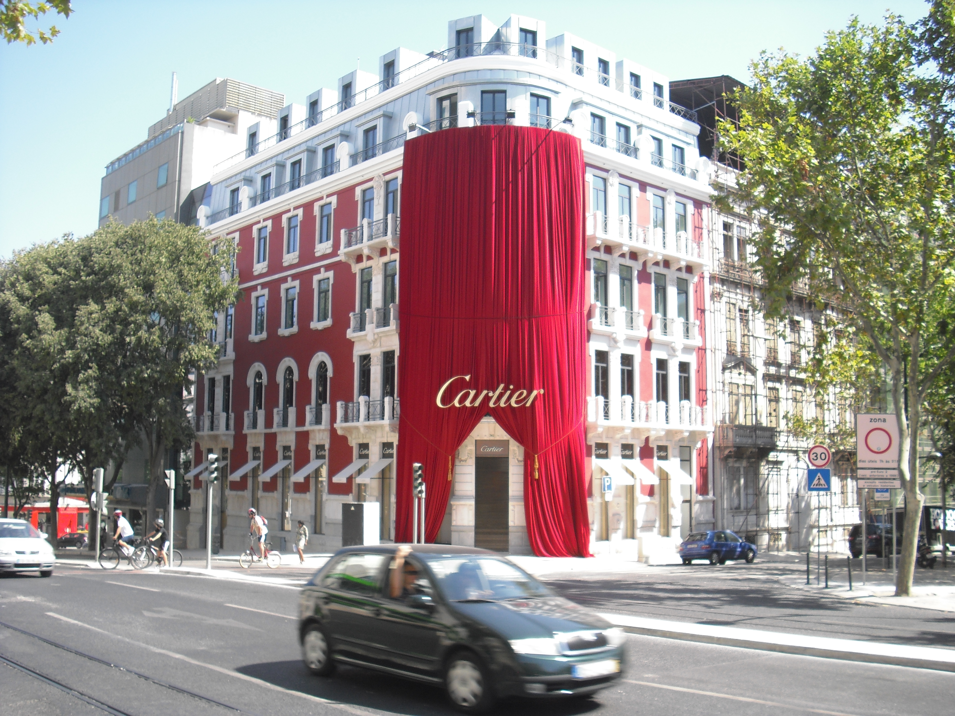 Cartier-building in Lisbon, Avenida Liberdade